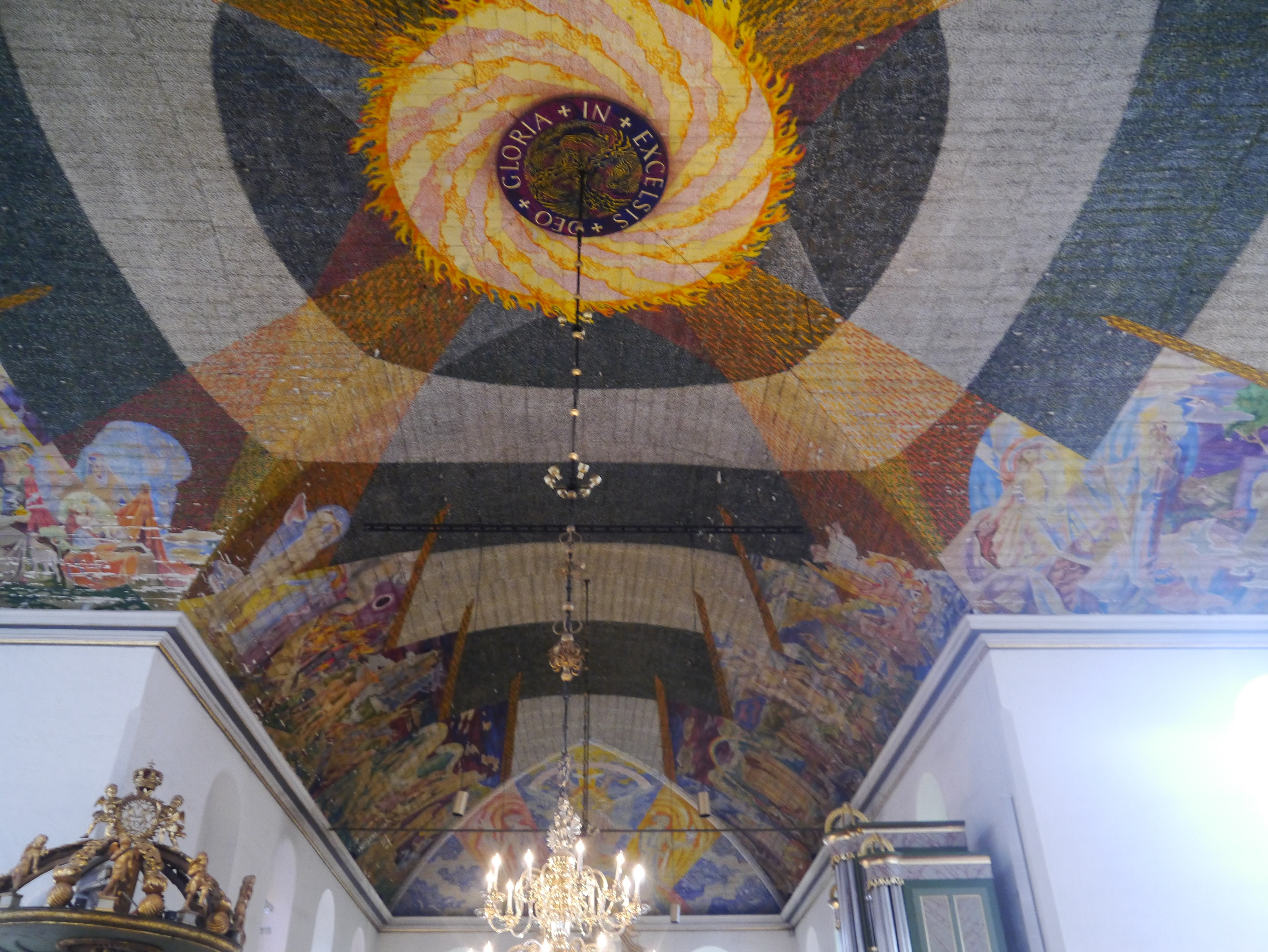 Ceiling of the lutheran Cathedral, Oslo, Southern Norway